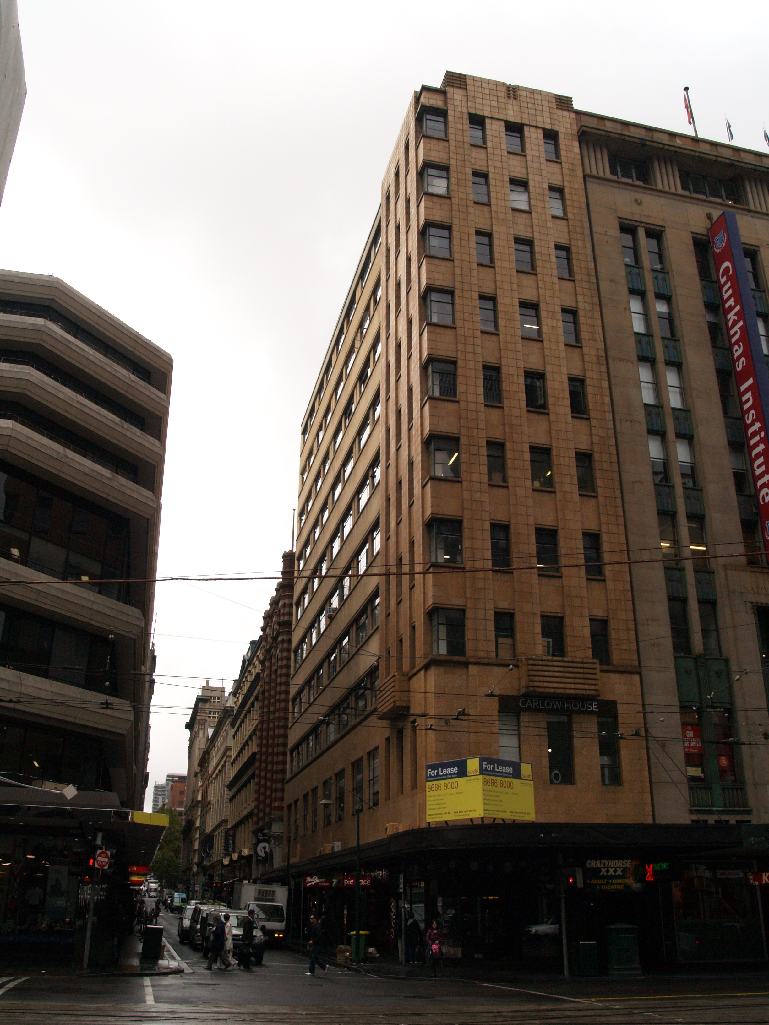 designed by Harry Norris